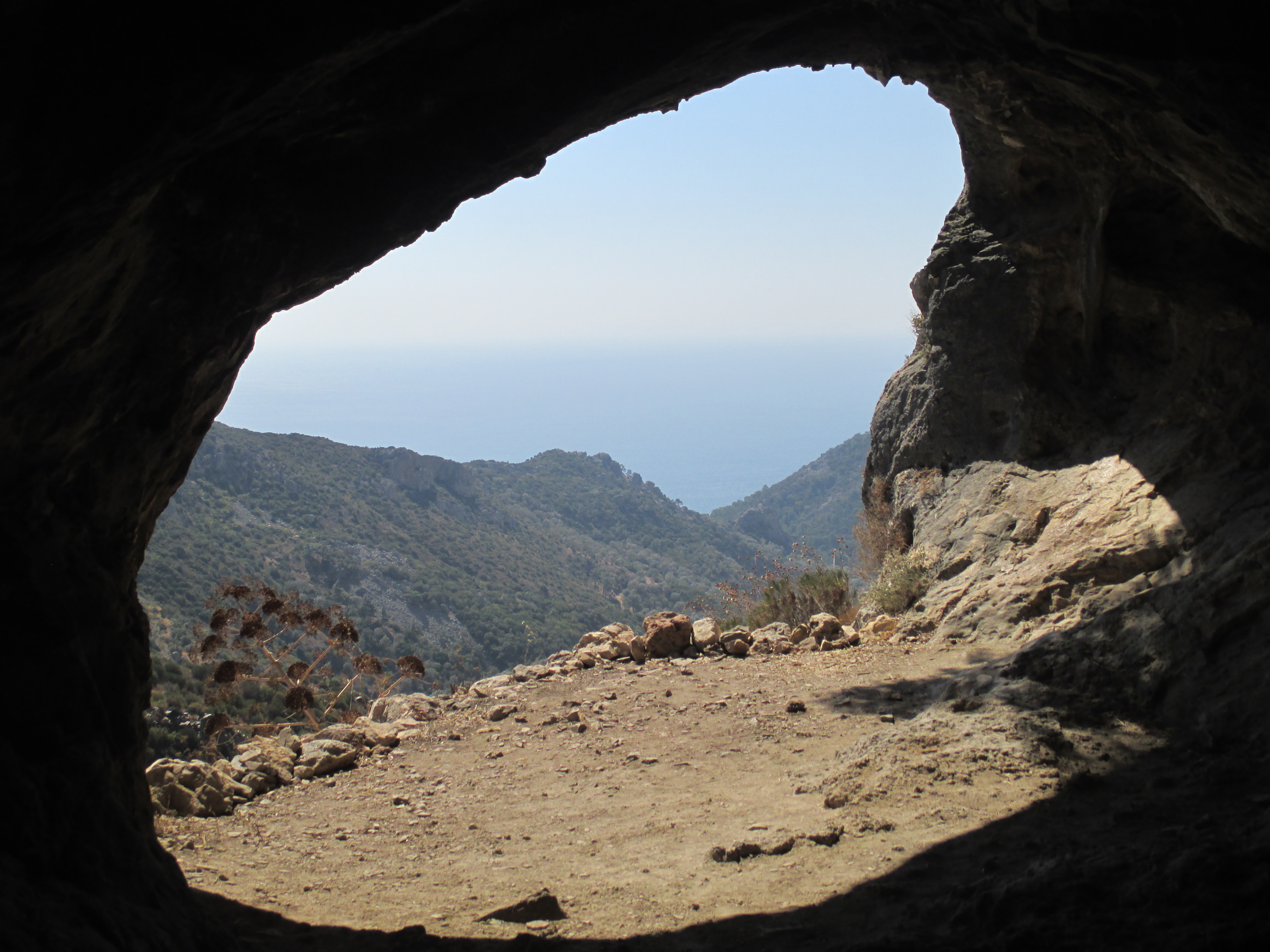 Pythagoras Cave, Mount Kerkis, Samos, Greece. "Window" of the cave.